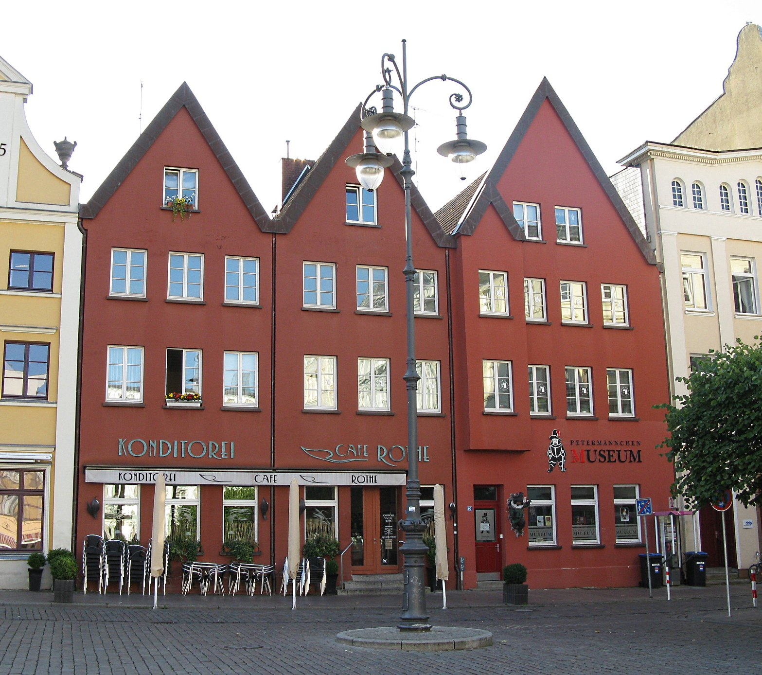 Buildings at market in Schwerin, Germany - Am Markt 10-12